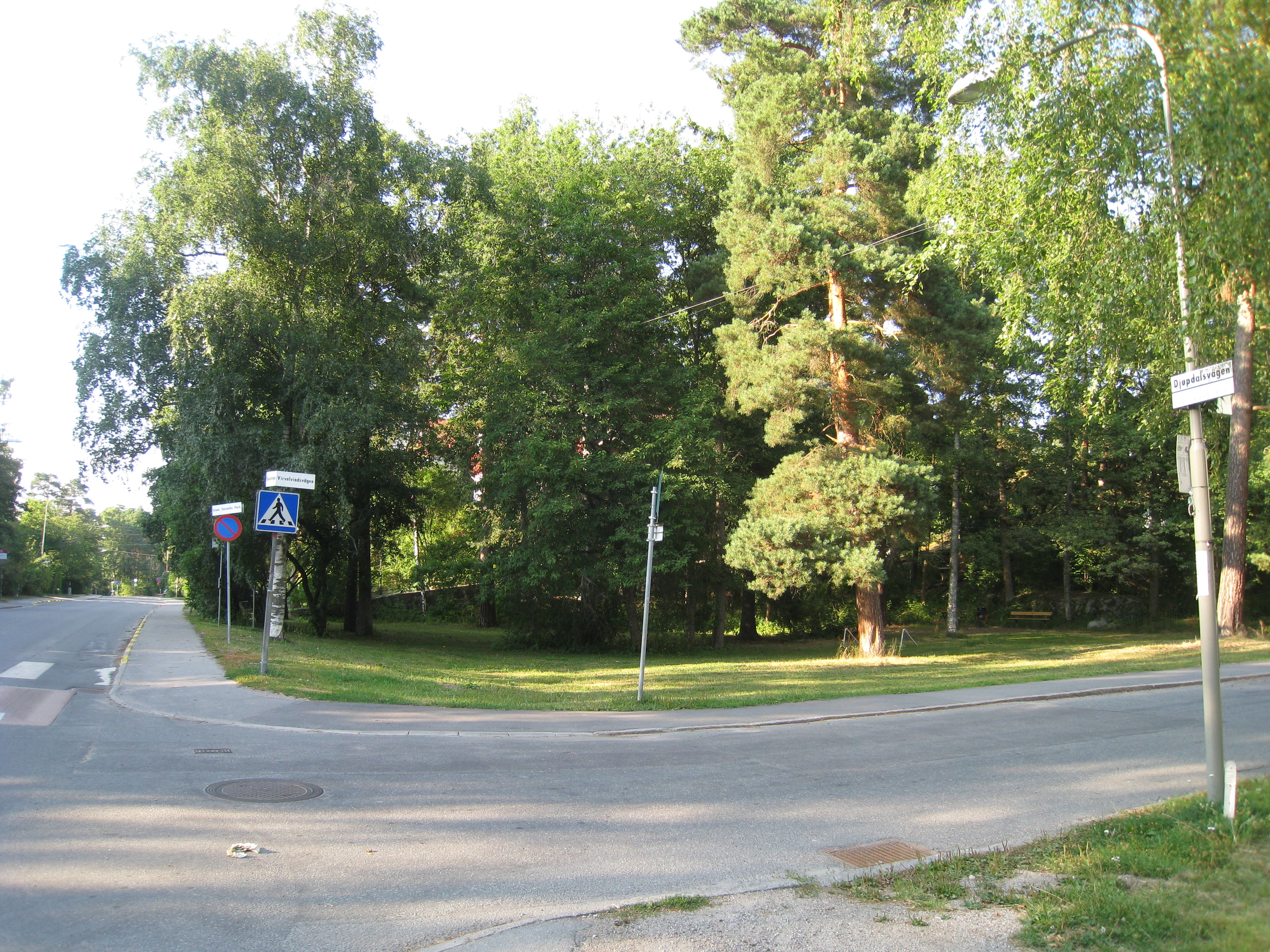 Einar Forseth's Park in Höglandet, Bromma, west of Stockholm. The park is situated at Djupdalsvägen in the corner of Virvelvindsvägen. The Swedish artist Einar Forseth (1892-1988) lived during the years 1925-1981 in a villa at Hallingsbacken 3 i Ålsten. In 1989 the little park area was named "Einar Forseth's Park".